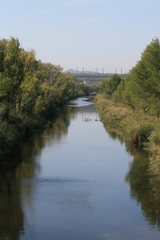 Chanel next to the Rhone river with at the back the bridge of the LGV railroad, Avignon (84), France